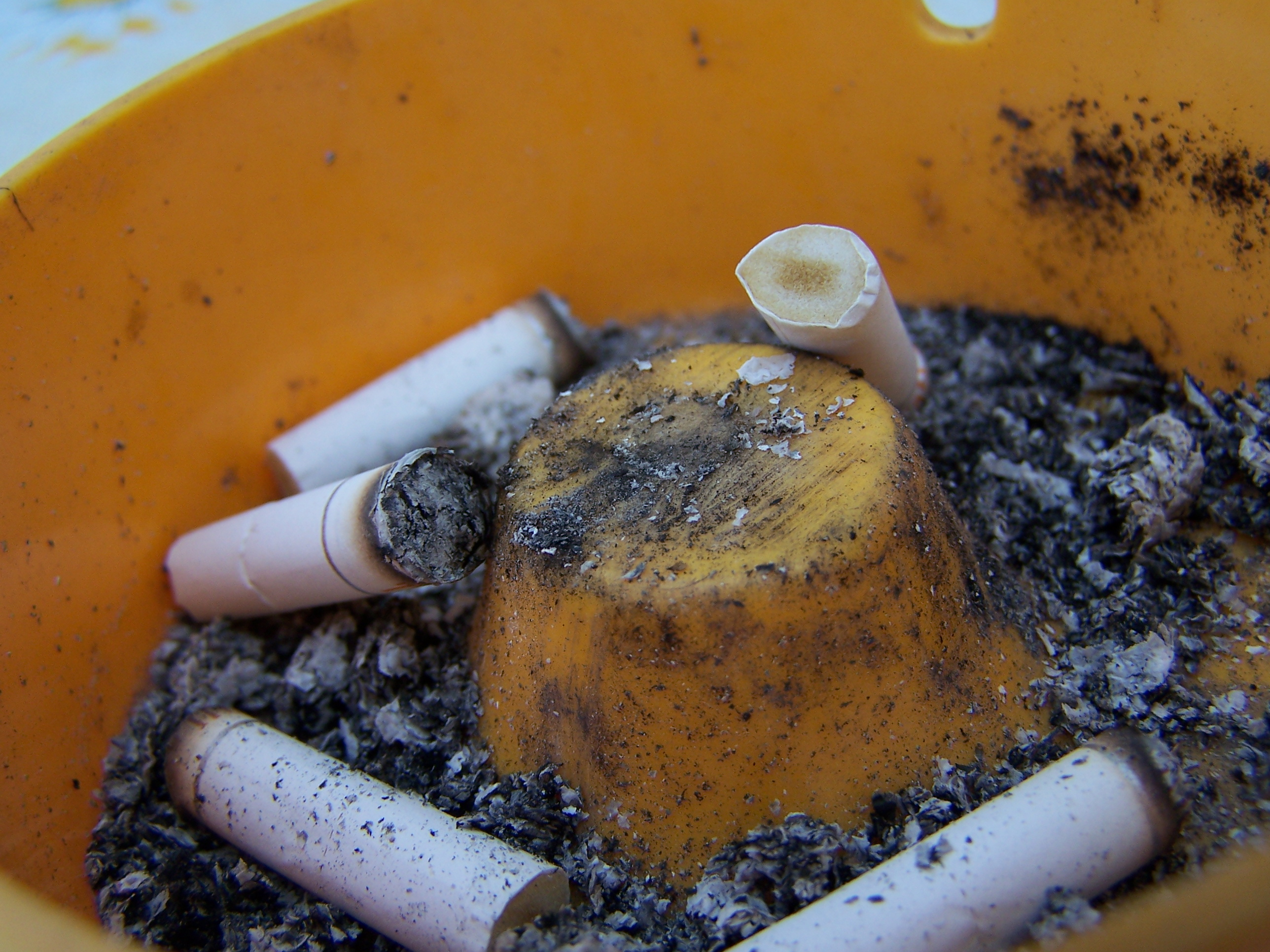 ashtray, spitkid